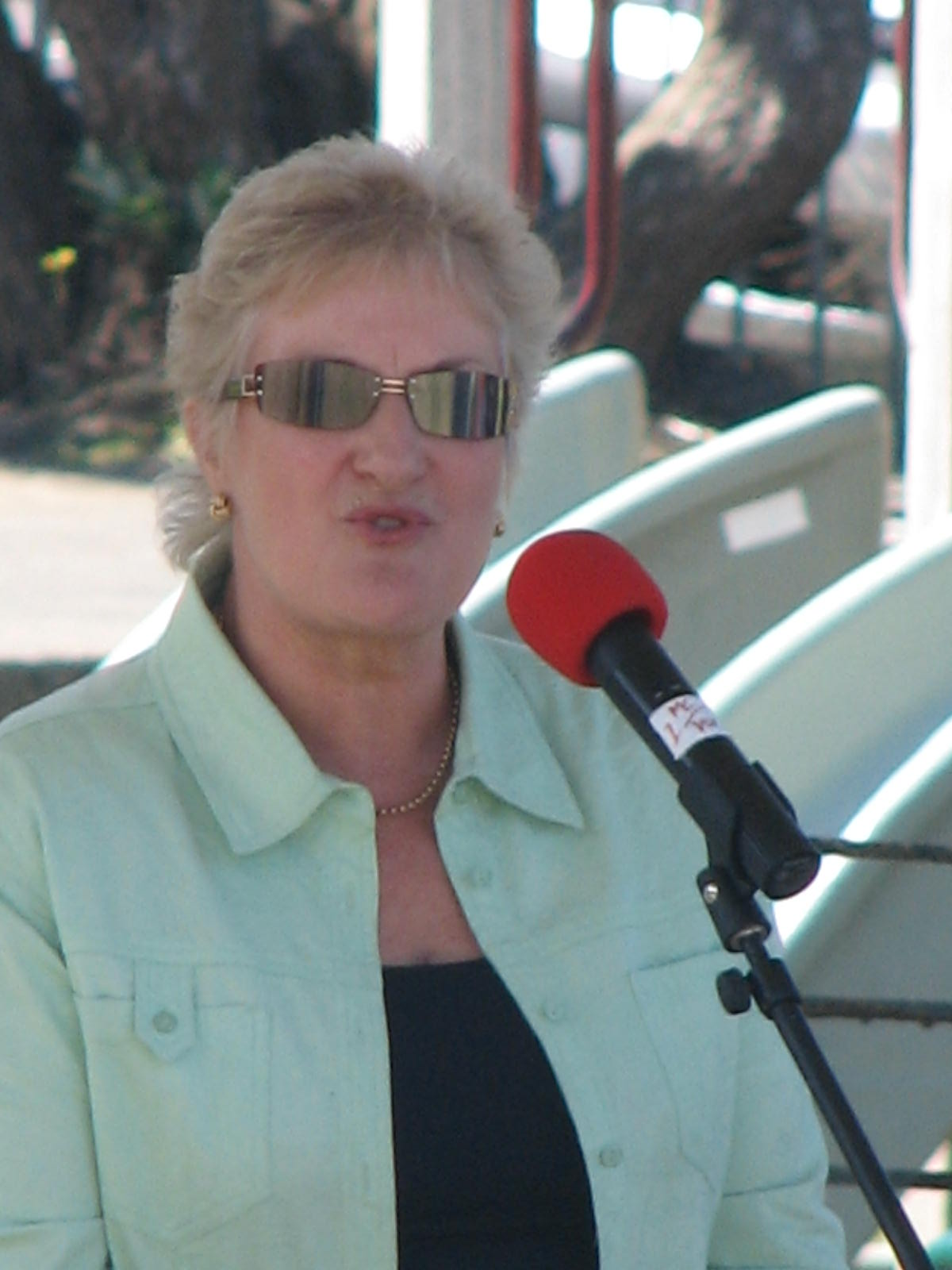 Annette King MP addressing the crowd at the opening ceremony of Island Bay Festival 2007 .